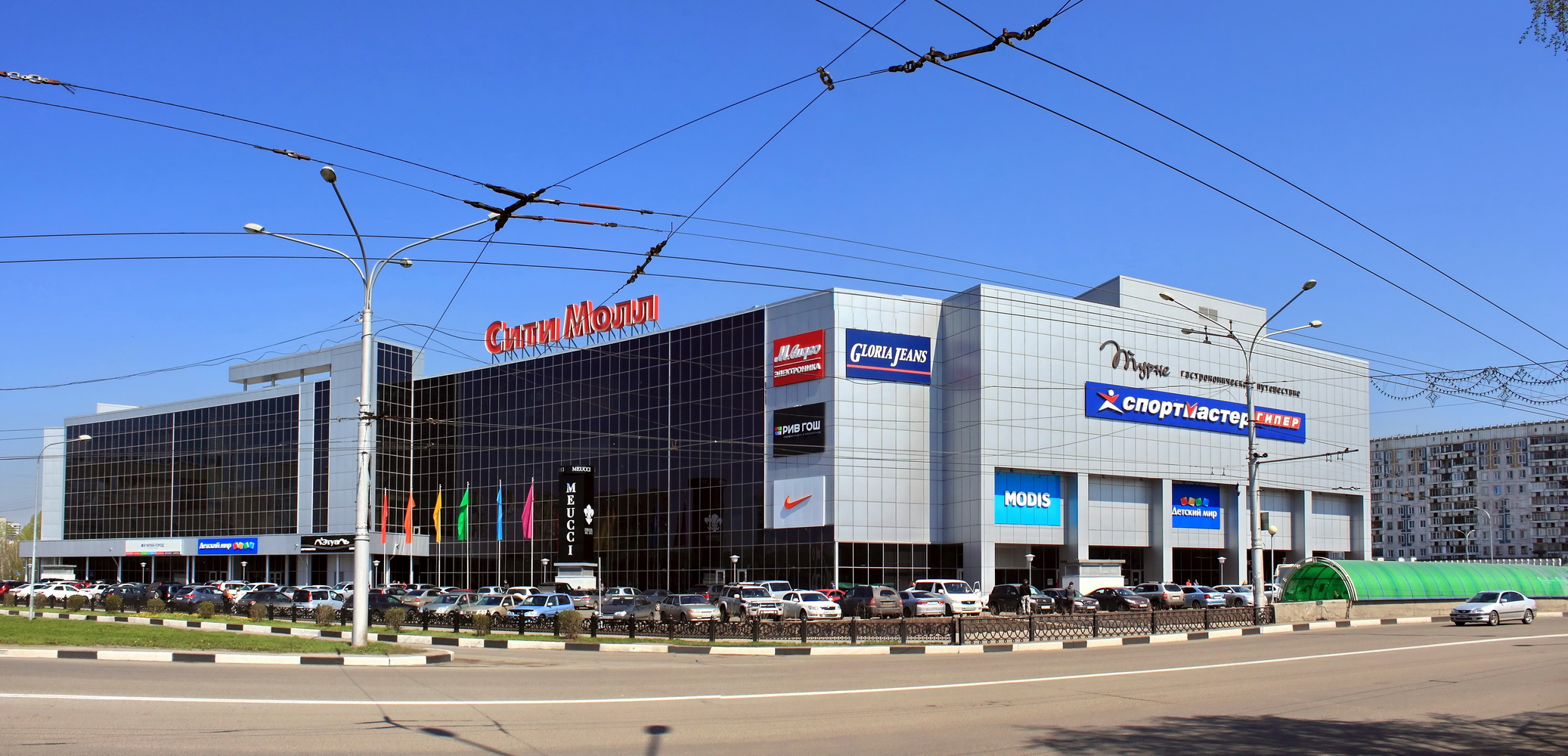 One of city malls in Novokuznetsk. Stitched Panorama